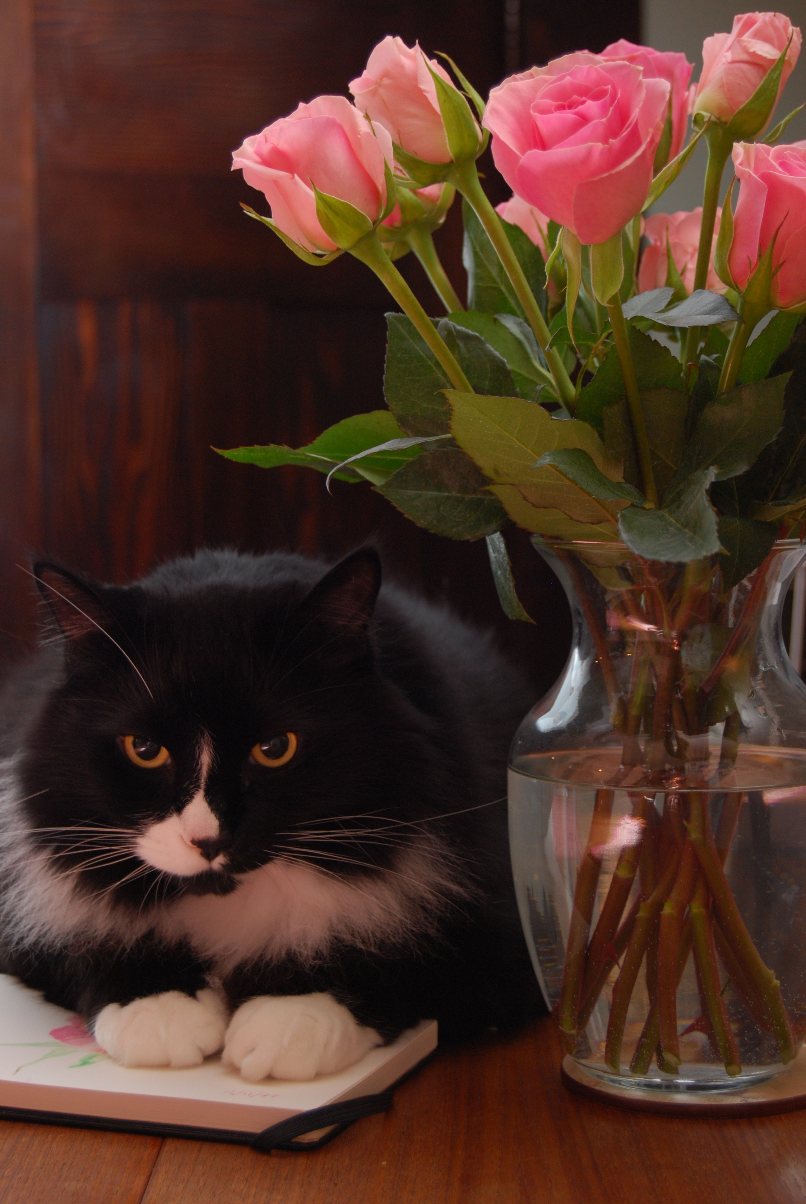 Tuxedo cat (long-haired male) & roses